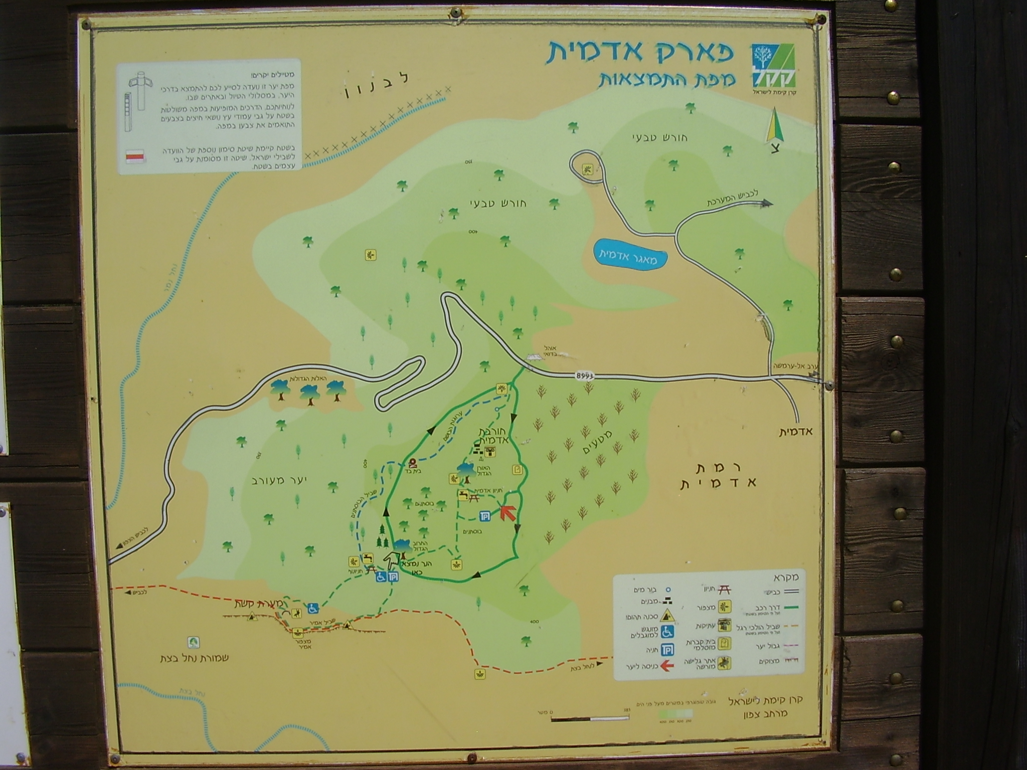 adamit park פארק אדמית